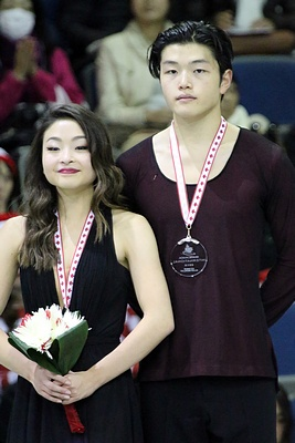 Maia Shibutani and Alex Shibutani at the Sкate Canada 2015